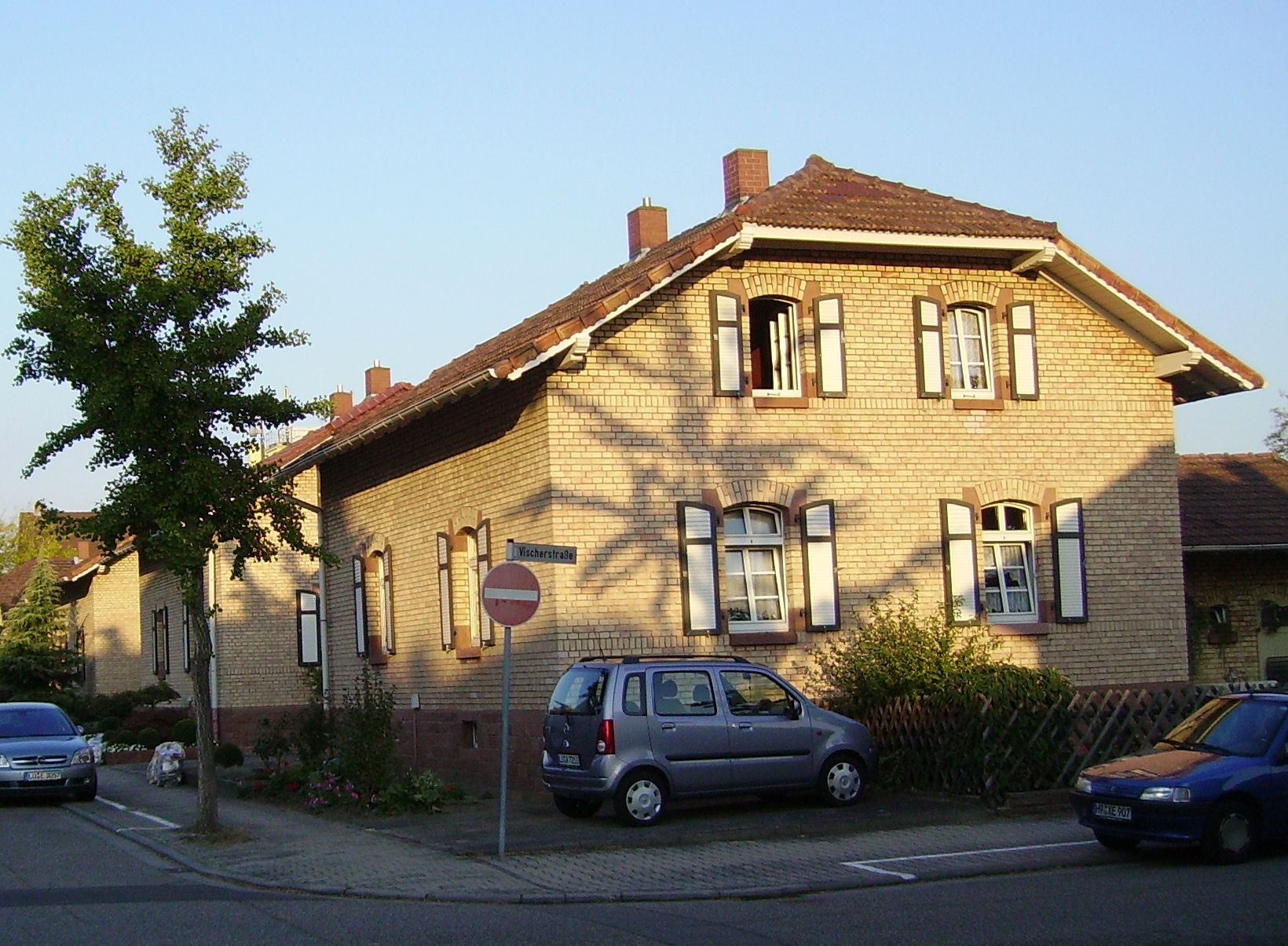 Werkssiedlung, Limburgerhof, Rheinland-Pfalz (Germany)